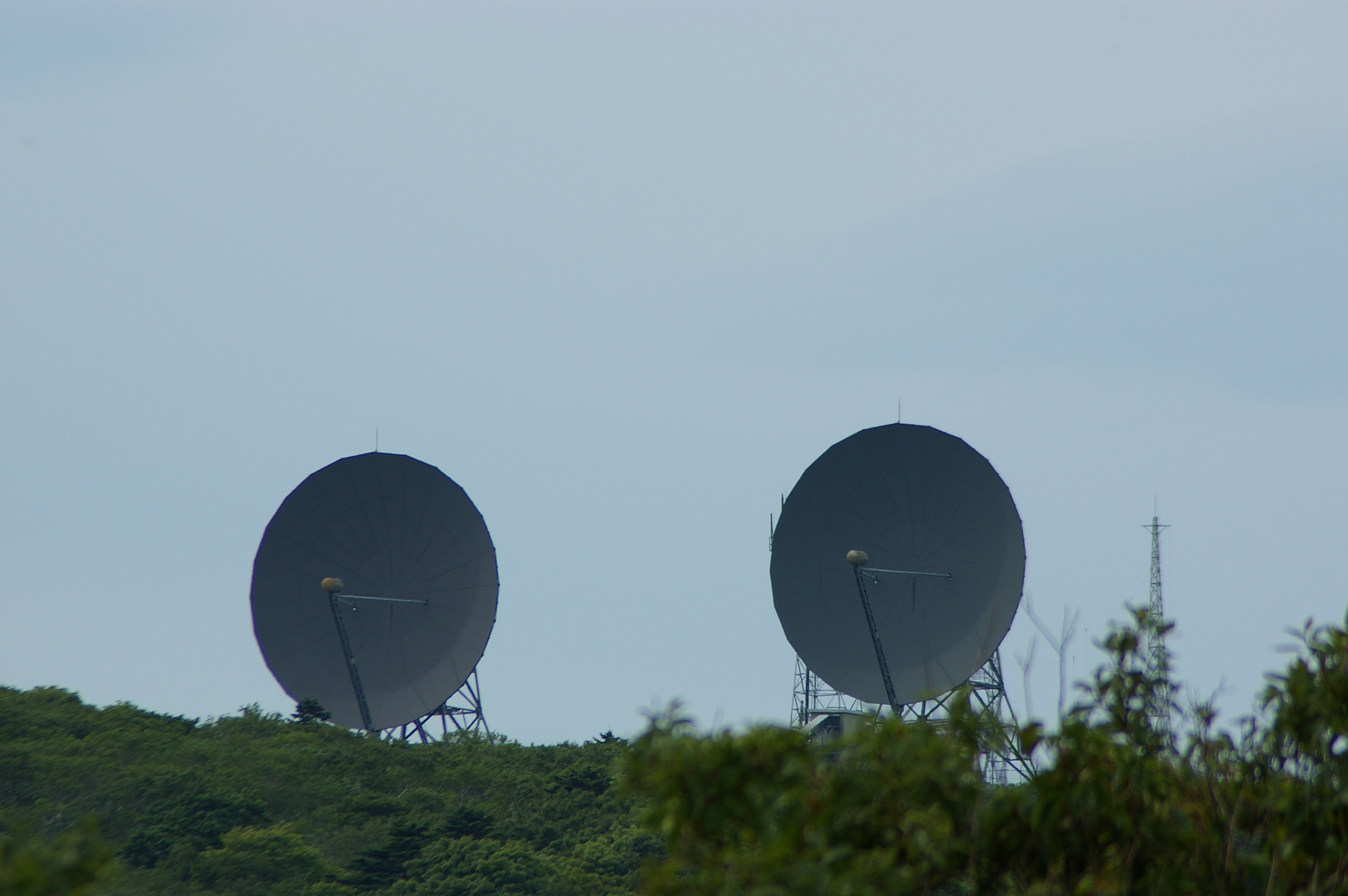 Over the horizon antenna, JASDF 18th watch unit(Wakkanai city).